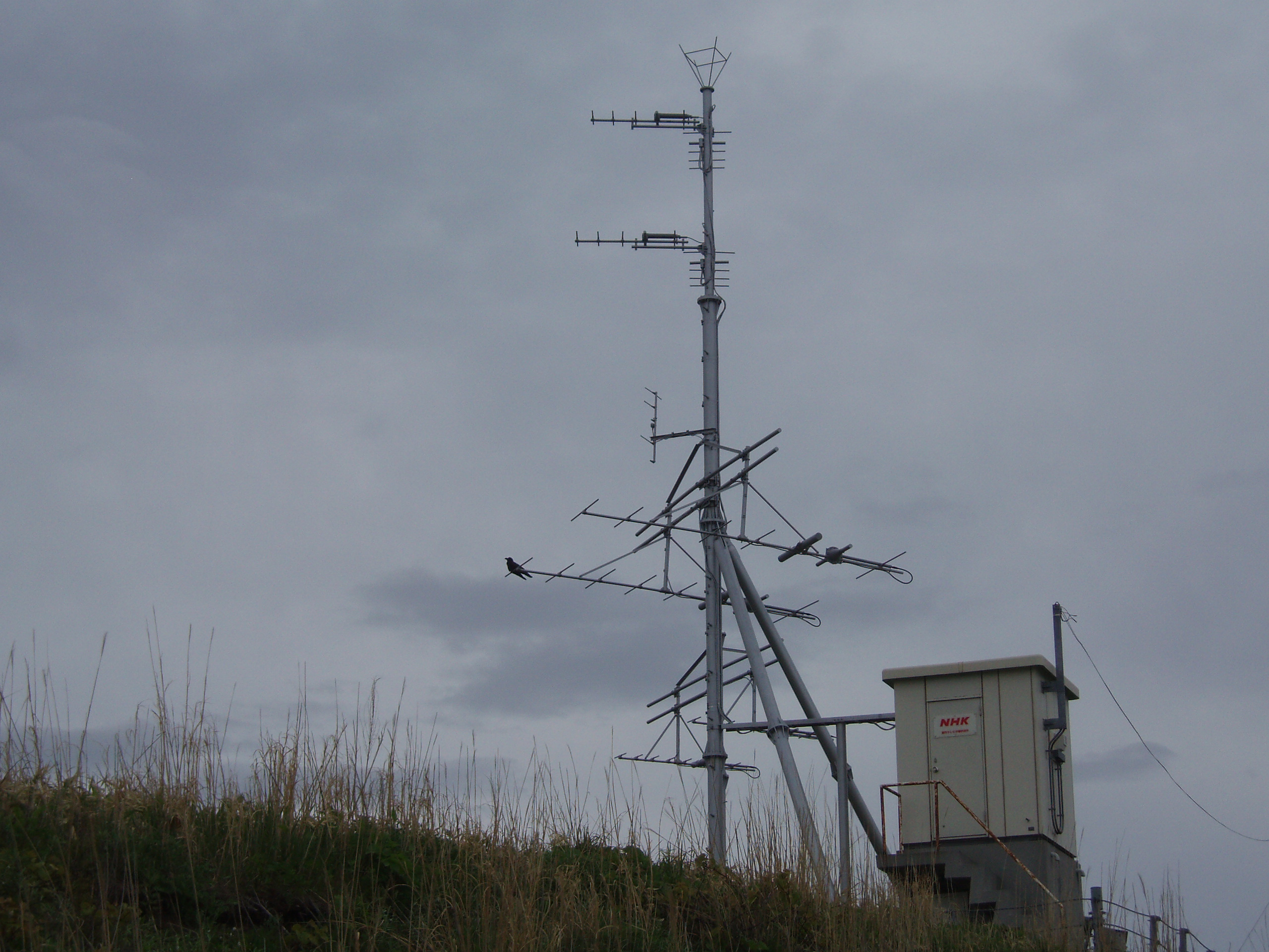 NHK transmitter at the Shakotan Broadcasting Relay Station